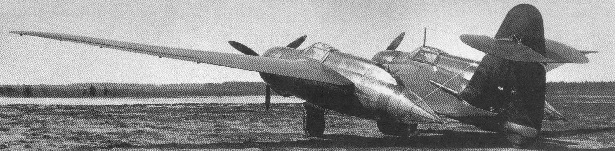 Belyayev DB-LK Prototype at Moscow Airfield